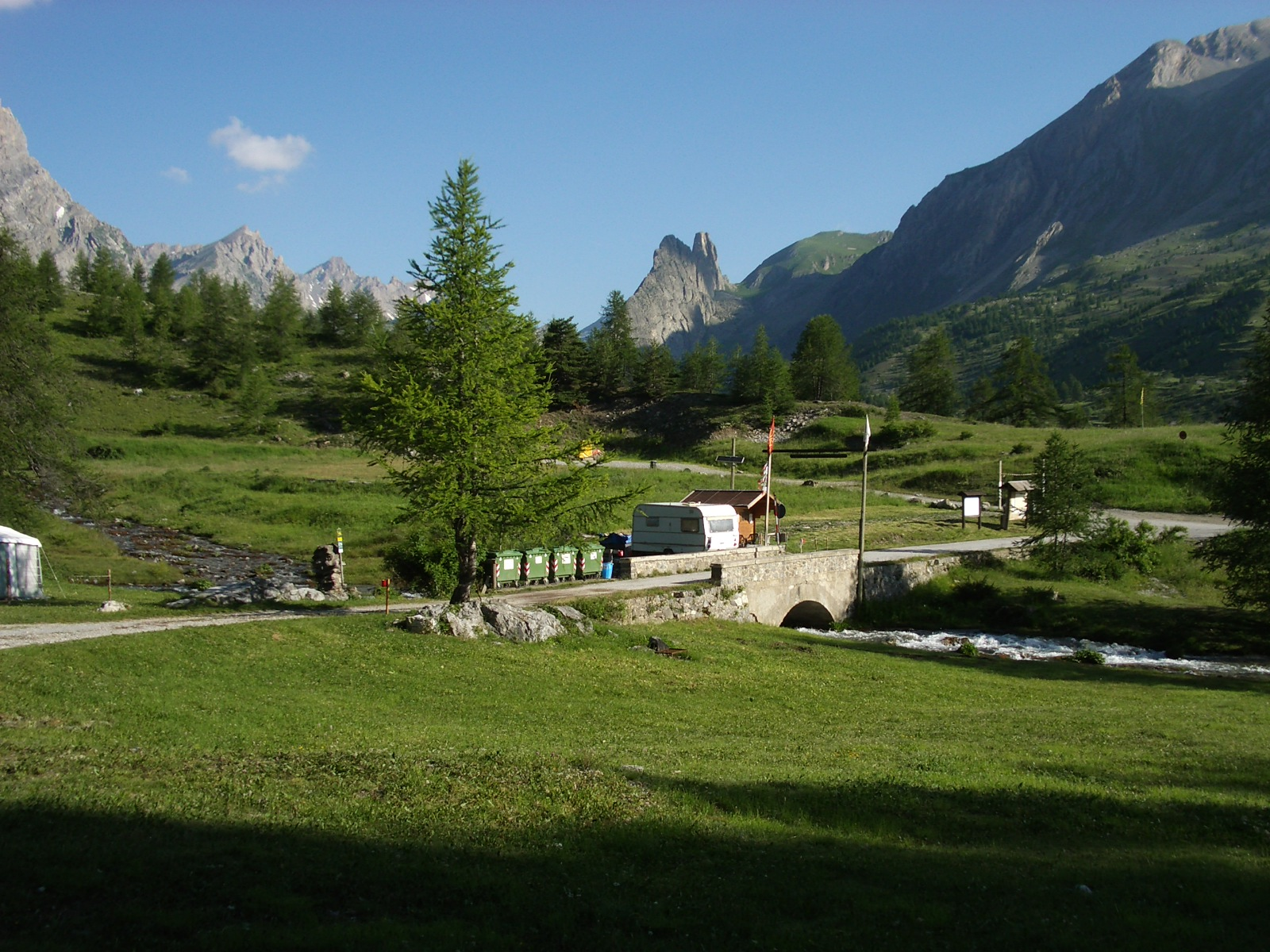 Acceglio, Maira Valley, Italy